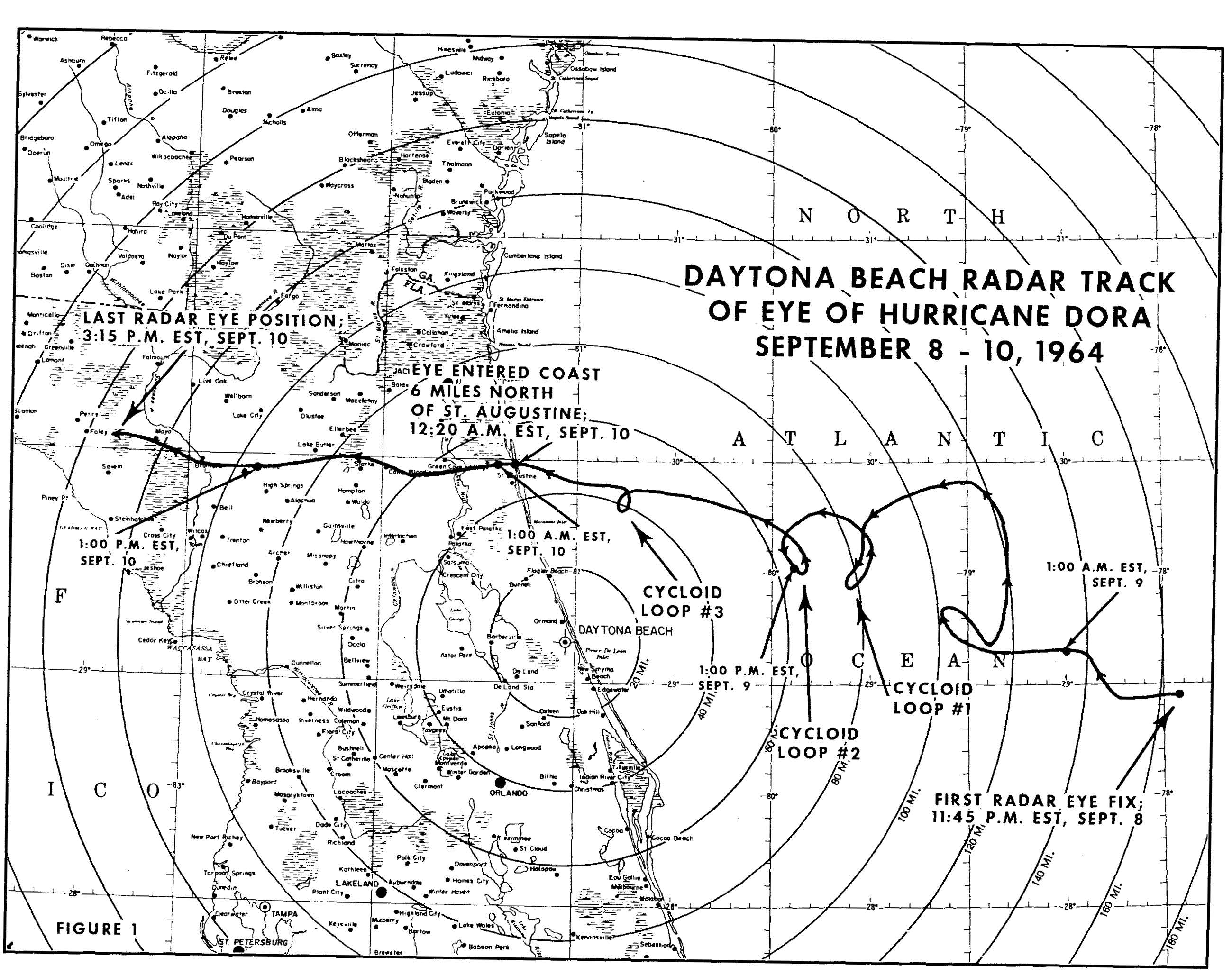 Enlarged track of Hurricane Dora (1964) as it approached the northeastern coast of Florida. The center was determined by the Weather Bureau radar in Daytona Beach and detailed three distinct cyclonic loops before the storm moved ashore.